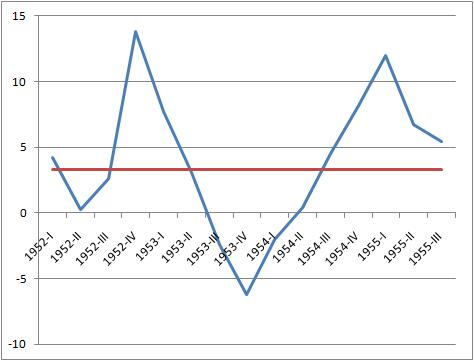 Quarterly GDP growth from 1951 to 1955, showing the Recession of 1953 in the United States The blue bar shows the Percent Change From Preceding Period in Real Gross Domestic Product (seasonally adjusted at annual rates) The red bar shows the average percent change in GDP growth from 1947 to 2009